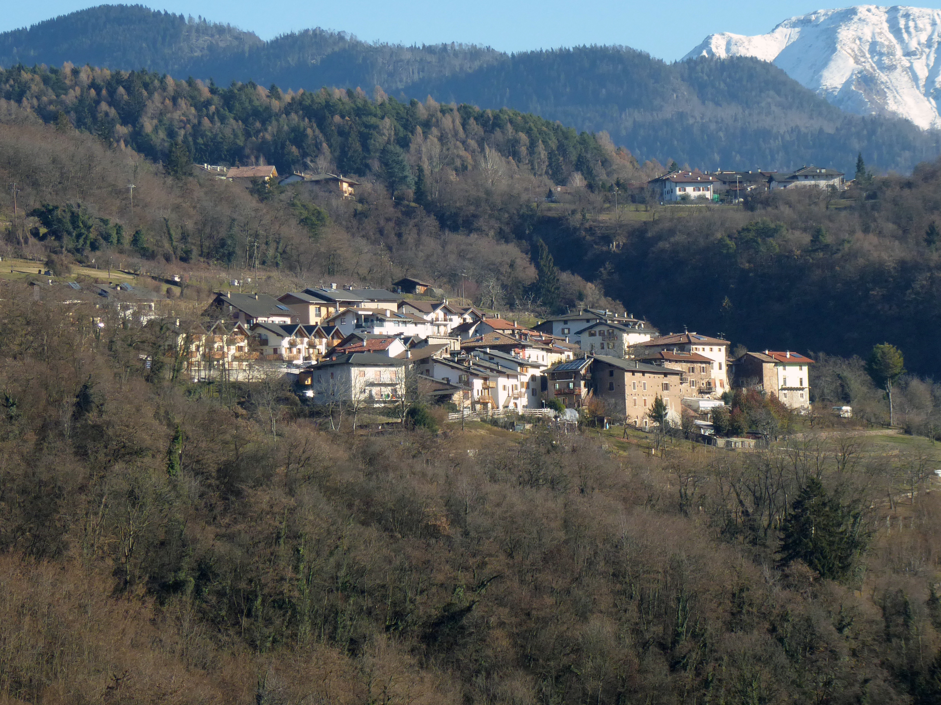 Barbaniga (Civezzano, Trentino, Italy)